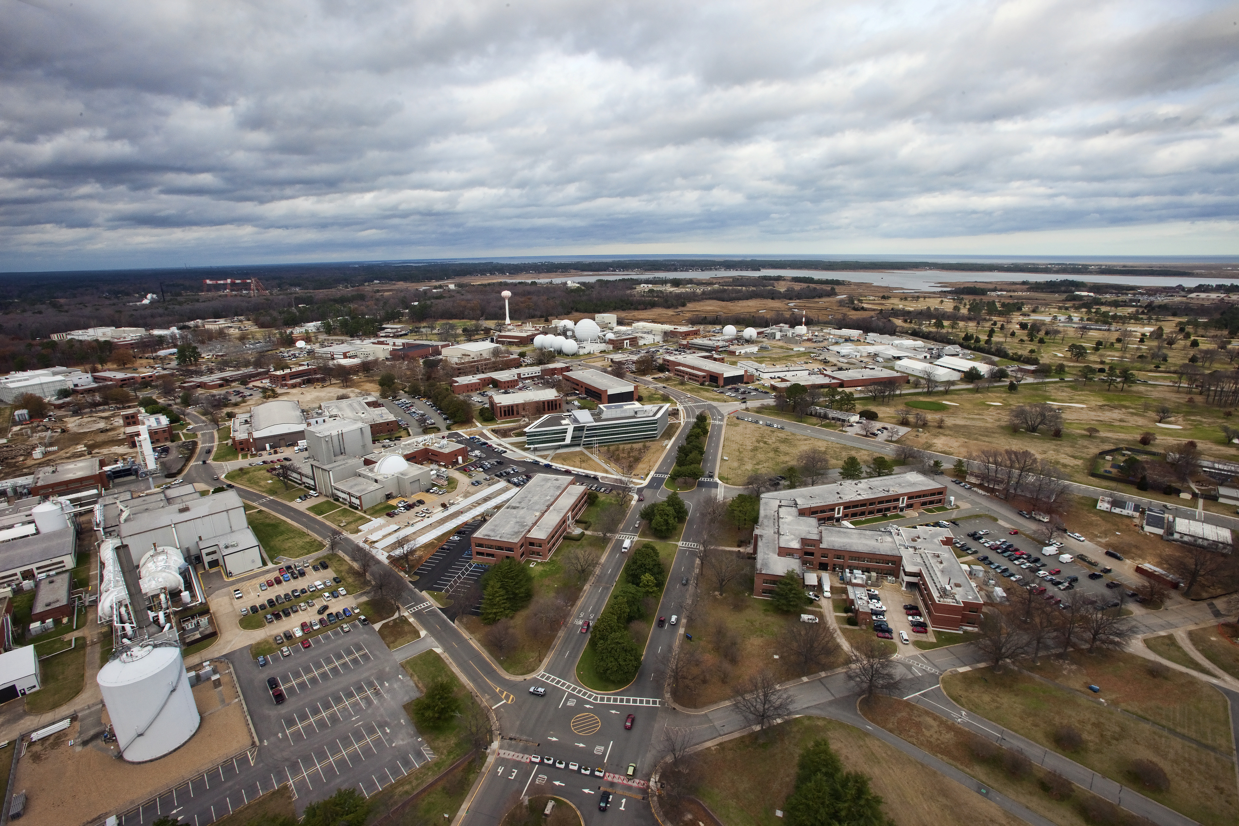 An aerial view of NASA's Langley Research Center in Virginia, United States.